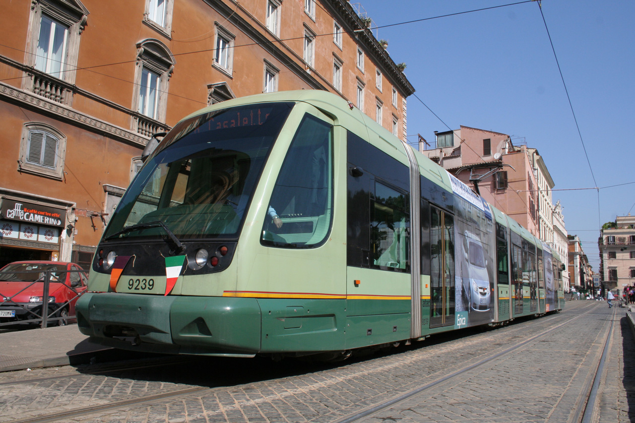 ATAC 9200 series tram in Rome in Largo Arenula (Torre Argentina). The front of the tram holds the flags of Italy and of Rome because the photograph was taken on a 21st April, the anniversary of the foundation of Rome